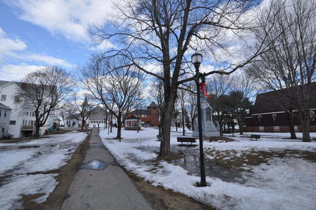 The town green, Pittsfield, New Hampshire